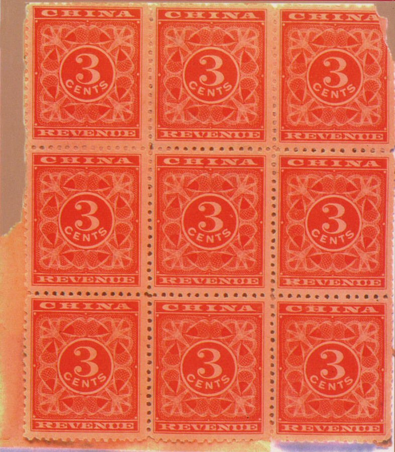 red 37